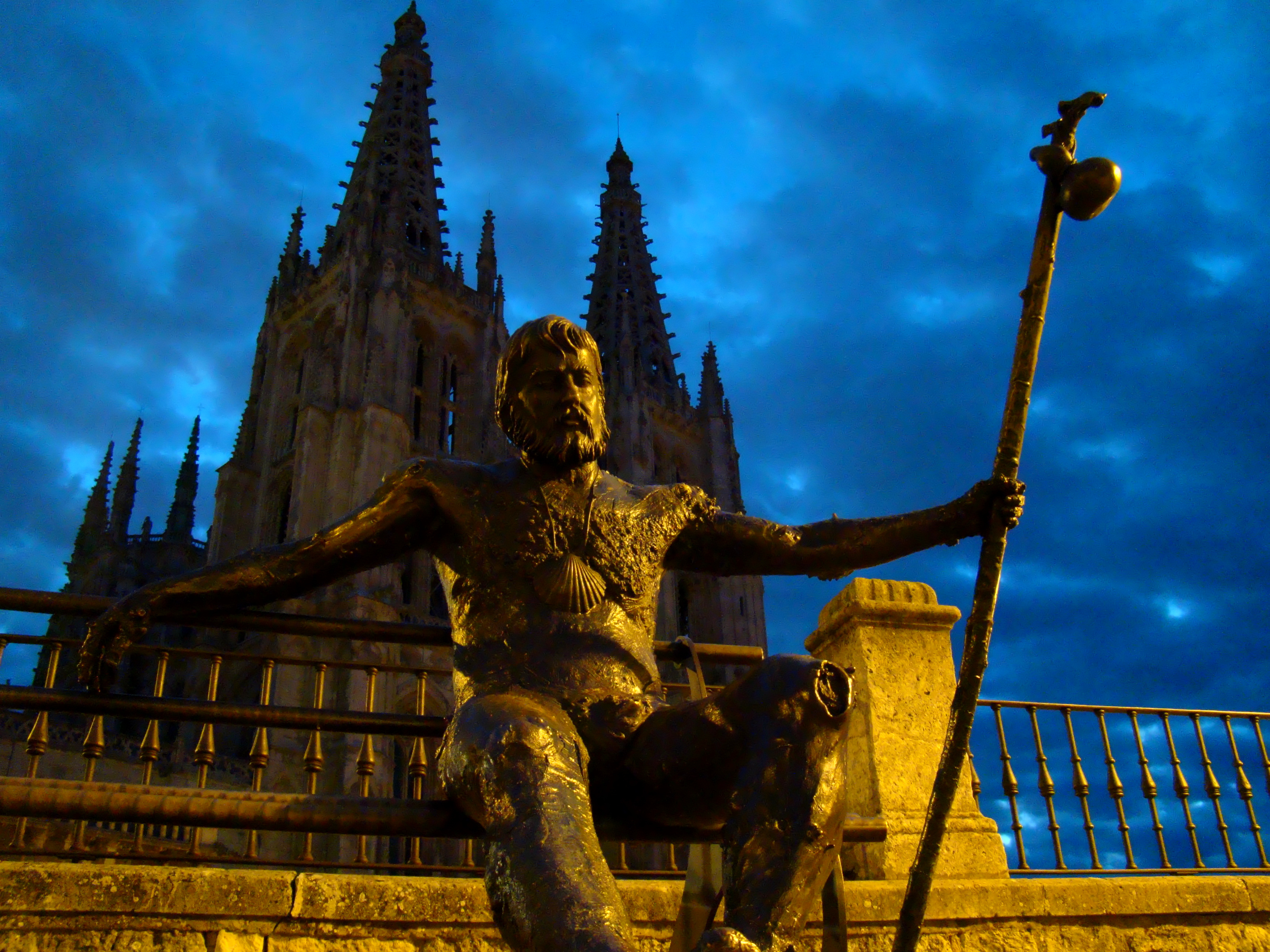 A sculpture showing a resting pilgrim on the side of the cathedral in Burgos, Spain.